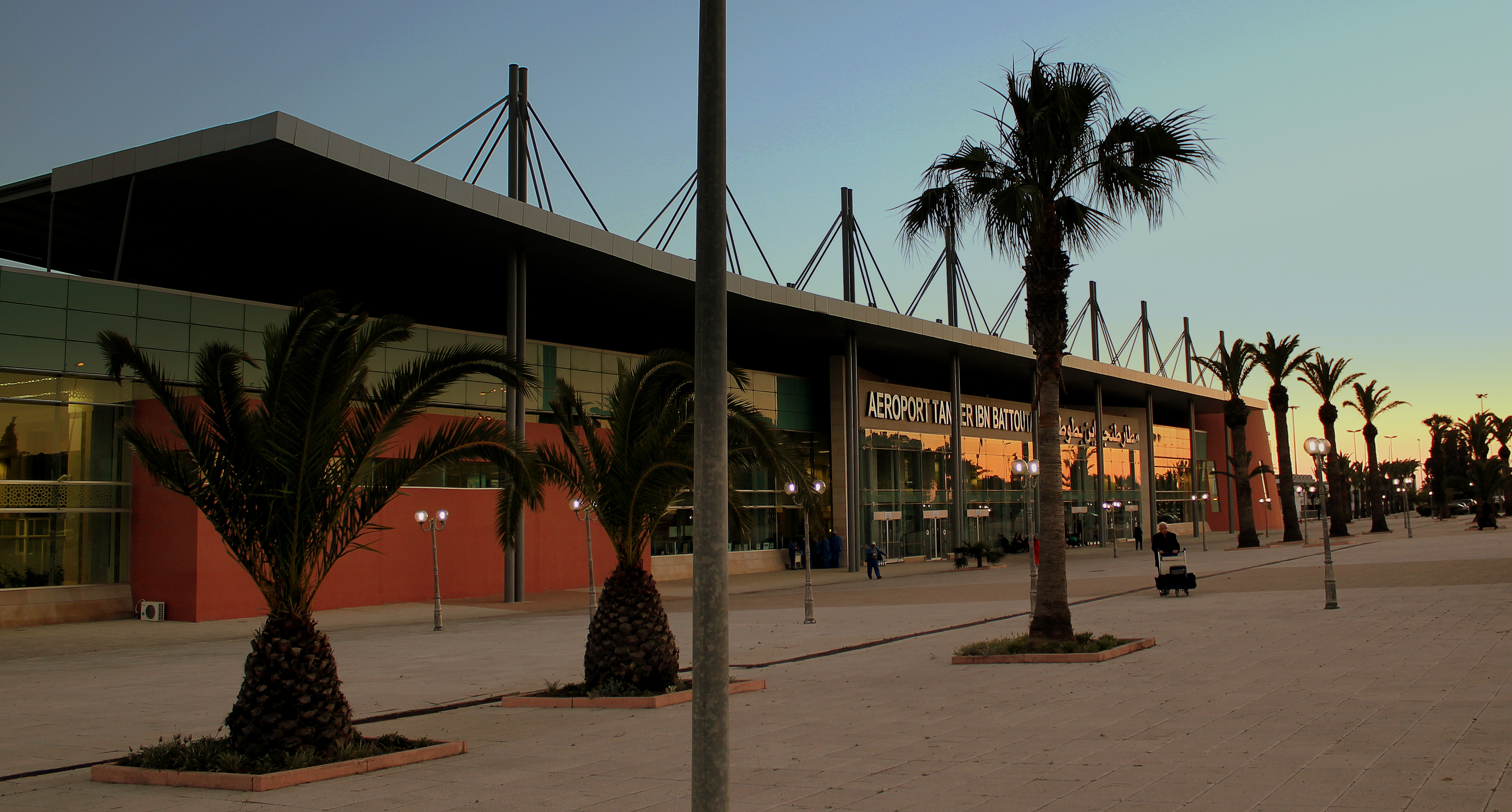 IBN BATTOUTTA AIRPORT TANGER MOROCCO APRIL 2013